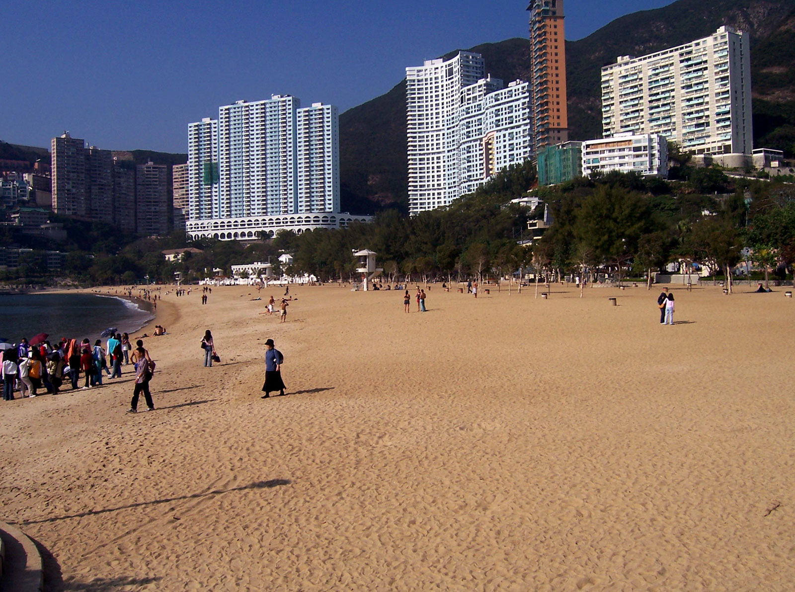 Taken at Repulse Bay. Taken by Enoch Lau on 2 January 2006. As a courtesy, please let me know if you alter this image or this image description page. Original filename was 100_1236.JPG.